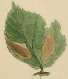 Stainton’s Natural History of the Tineina (1855–1873): Coptotriche marginea (syn.: Emmetia marginea) mined bramble leaf